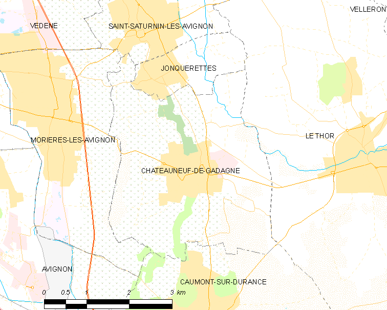 Map of French municipality Châteauneuf-de-Gadagne